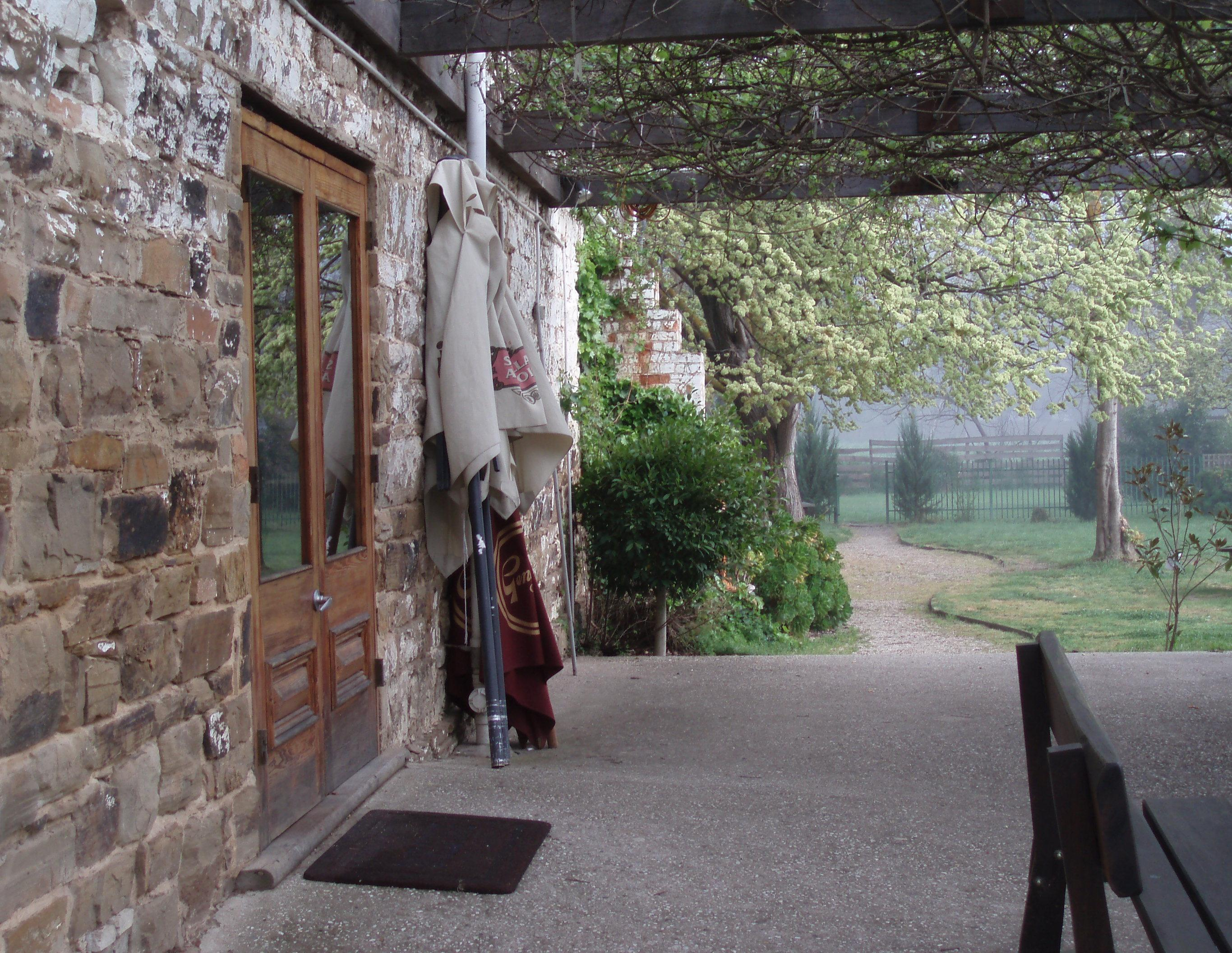 Self-explanatory.